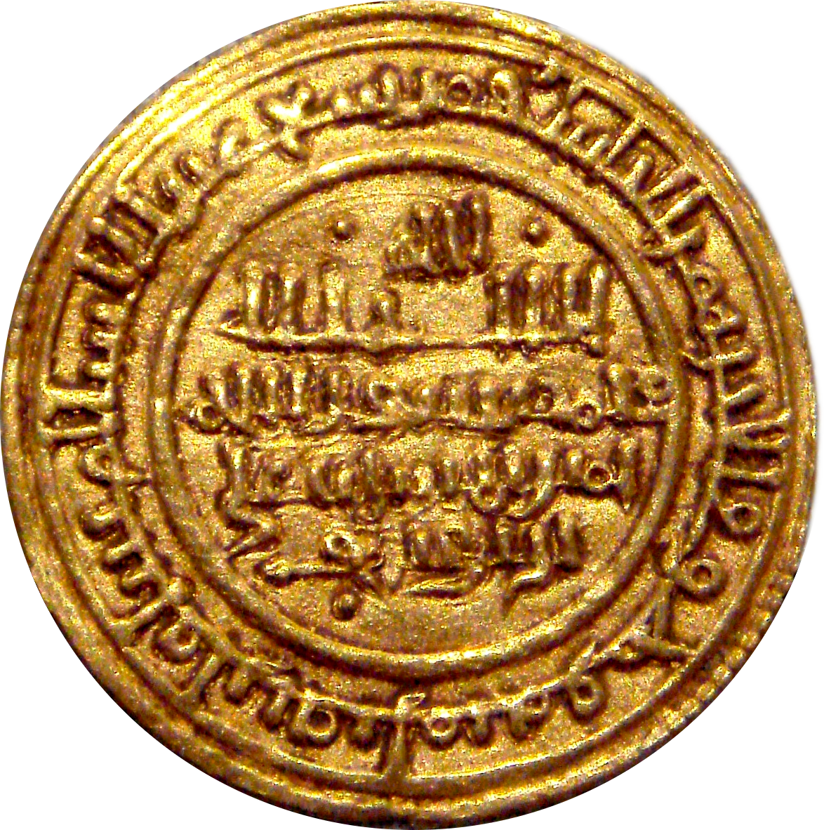 Almoravids_Sevilla_Spain_1116